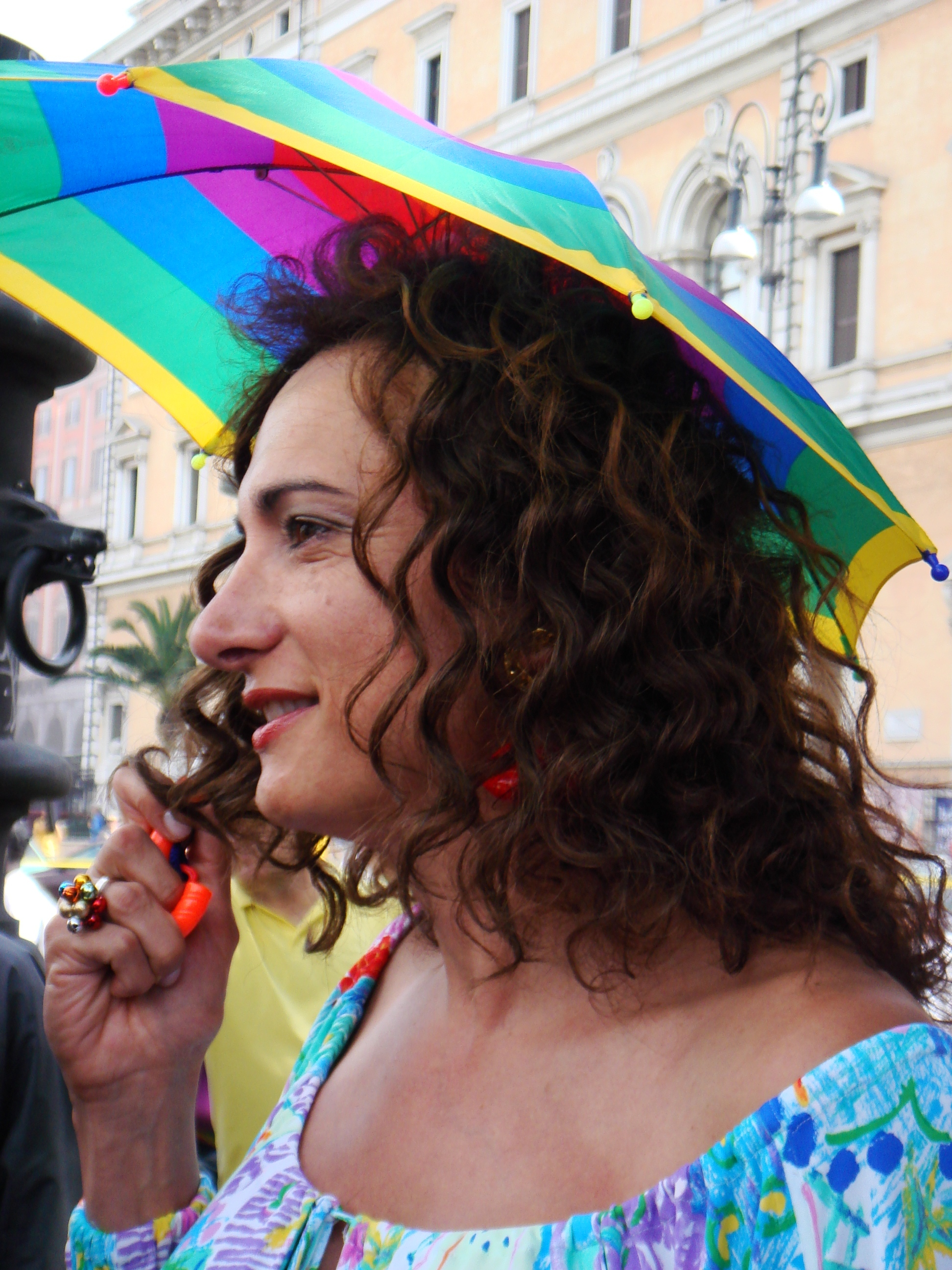 Vladimir Luxuria, at the Roma Gay Pride in 2008. Picture by Stefano Bolognini, June 7 2008.